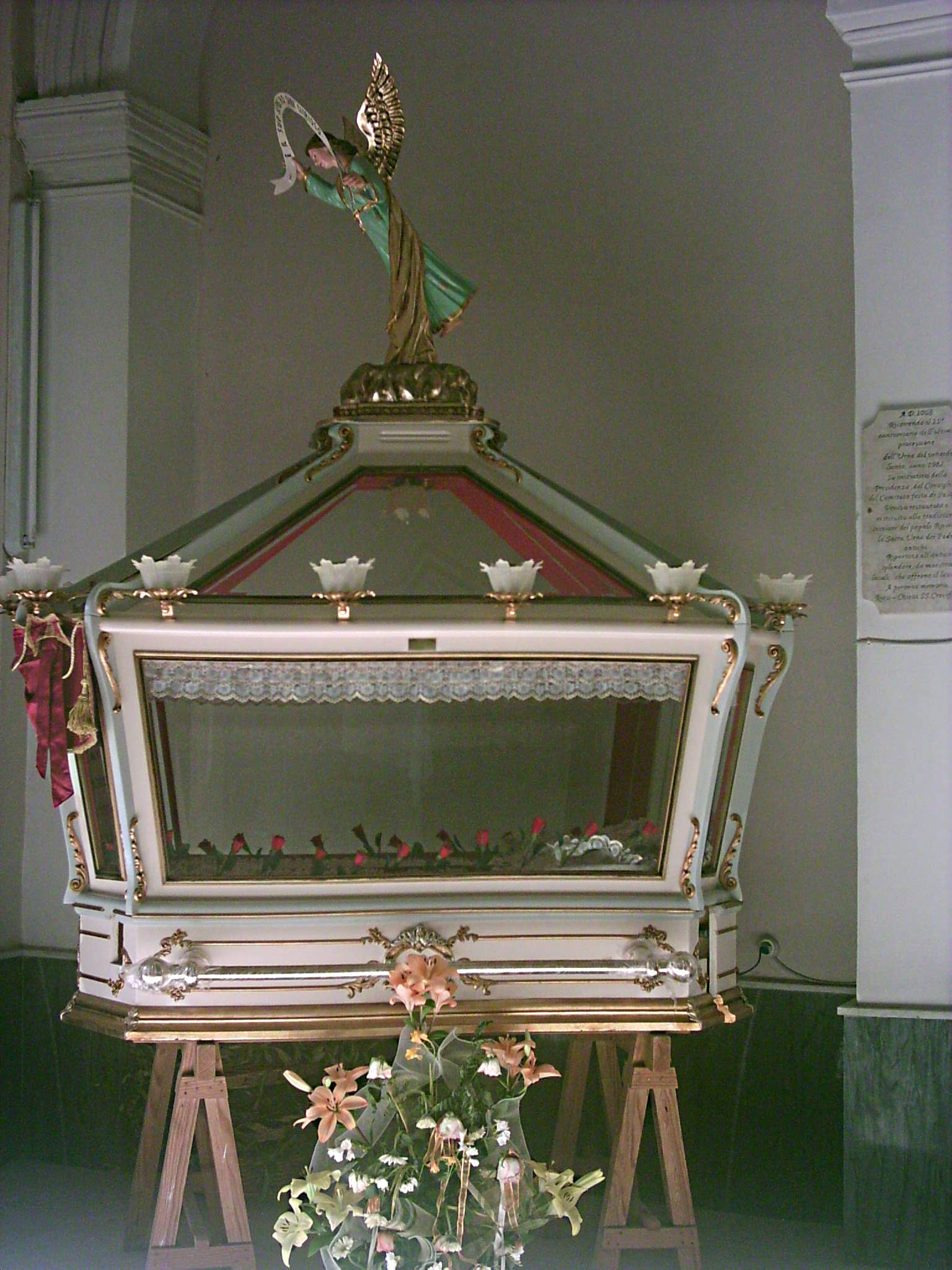 Easter in Riesi (CL) - Urn